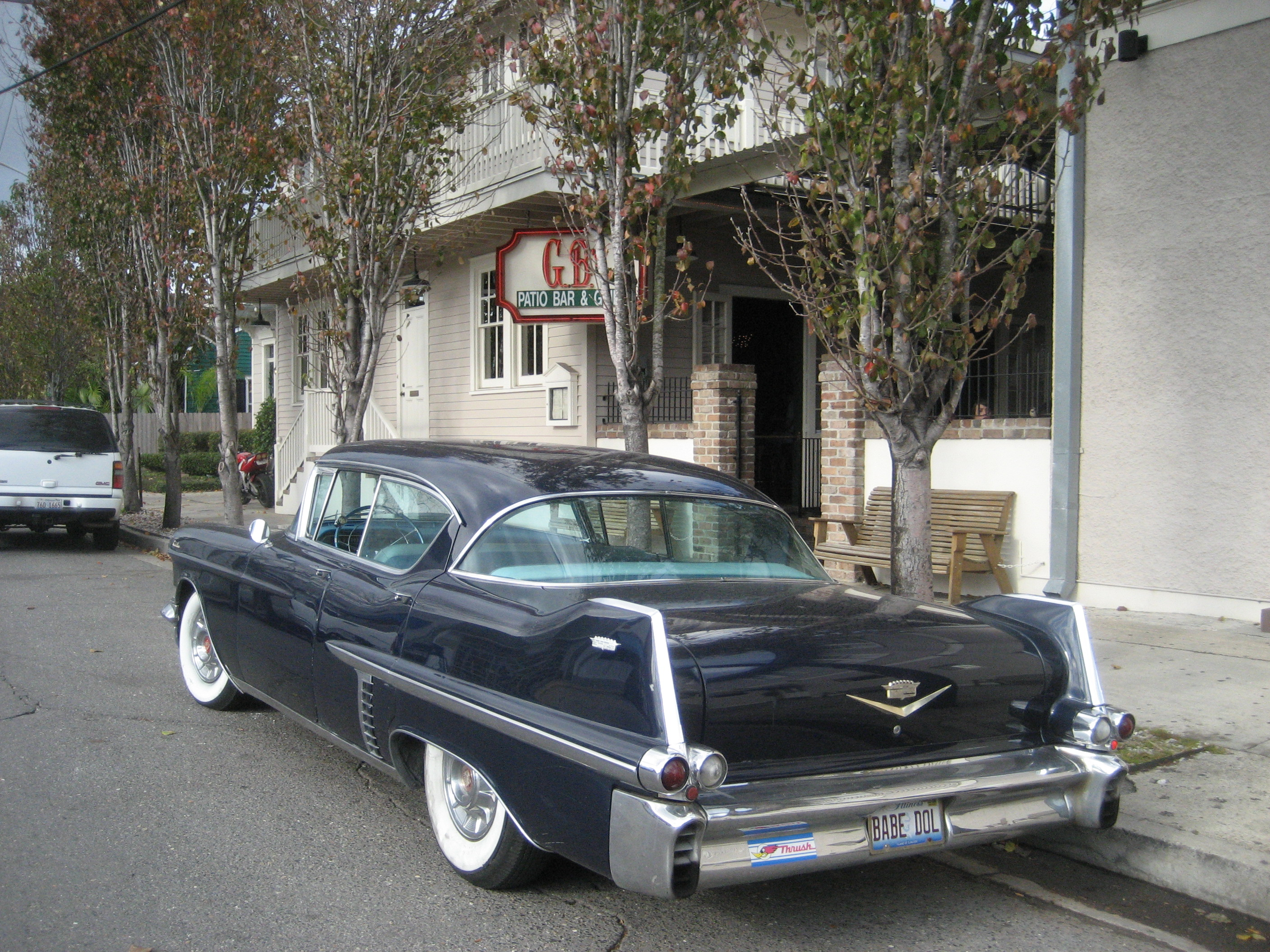 1950s Cadillac parked on Maple Street, Carrollton neighborhood, New Orleans.